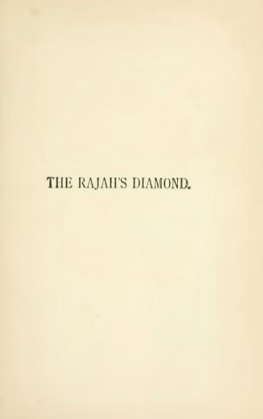 The Rajah's Diamond Chapter Cover, within "New Arabian Nights" by R.L. Stevenson